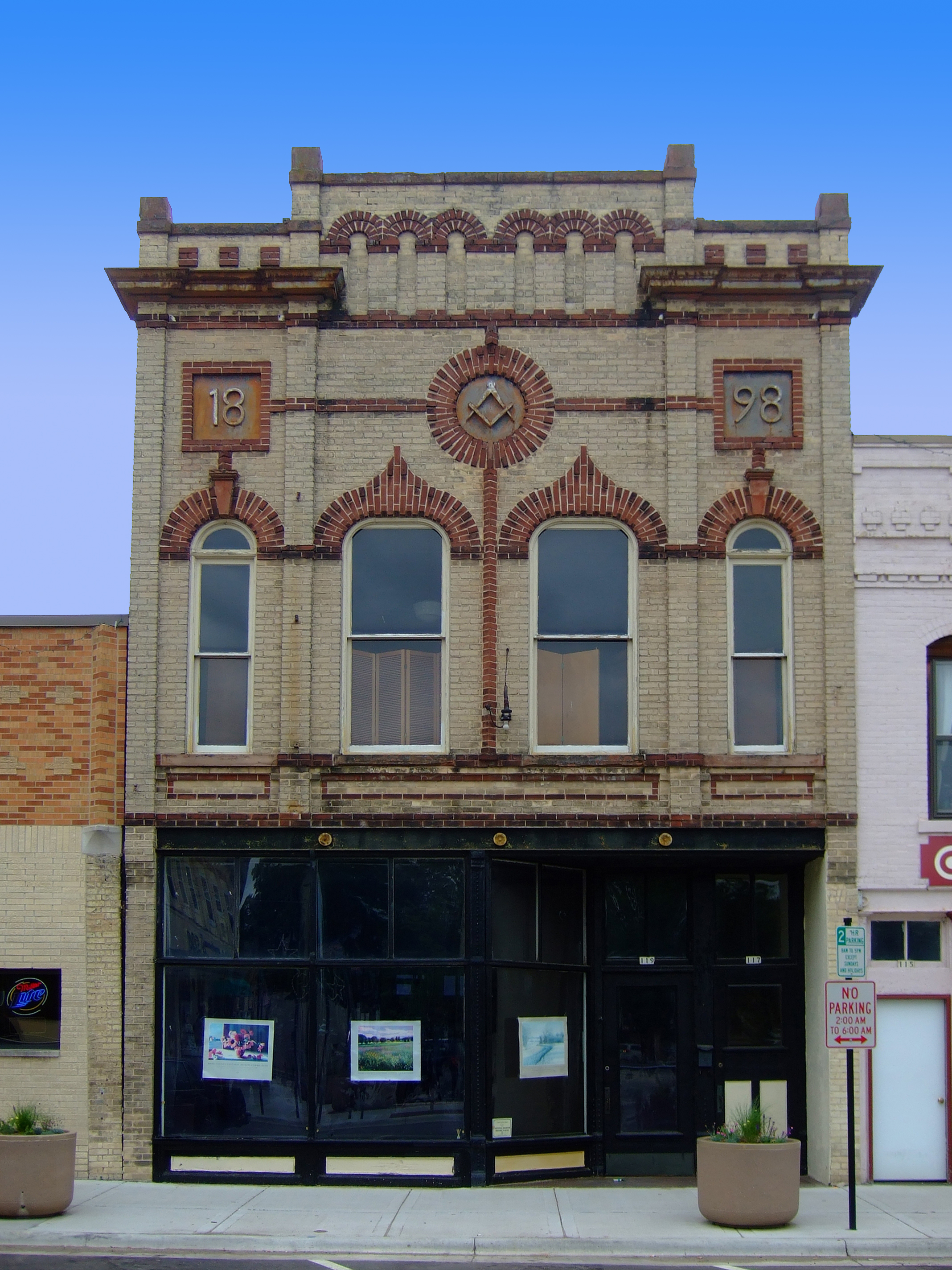 Oregon Masonic Lodge at 117-119 S. Main Street in Oregon, Wisconsin. Added to the National Register of Historic Places in 1992.